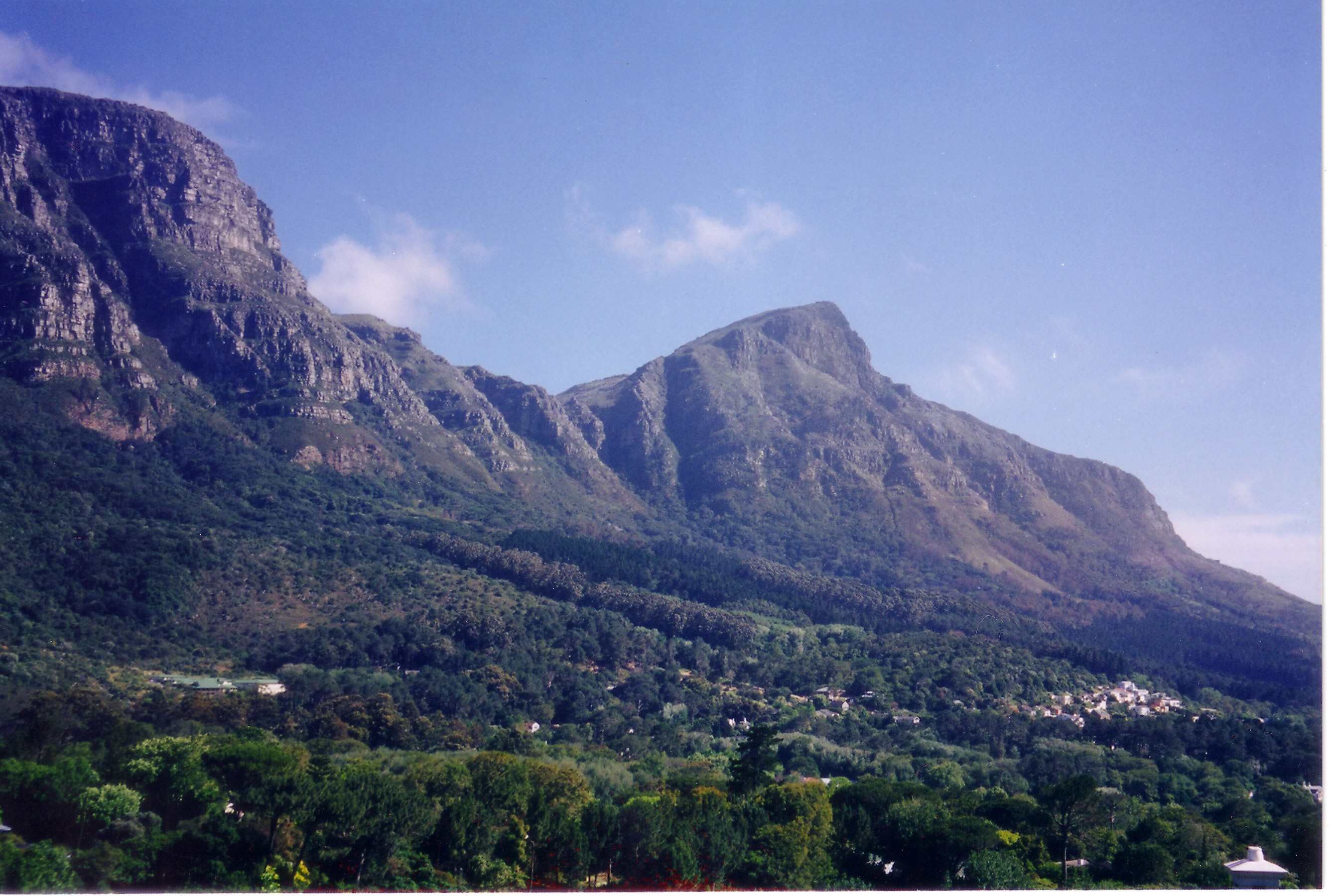 Taken by myself, Andres de Wet, December 2006